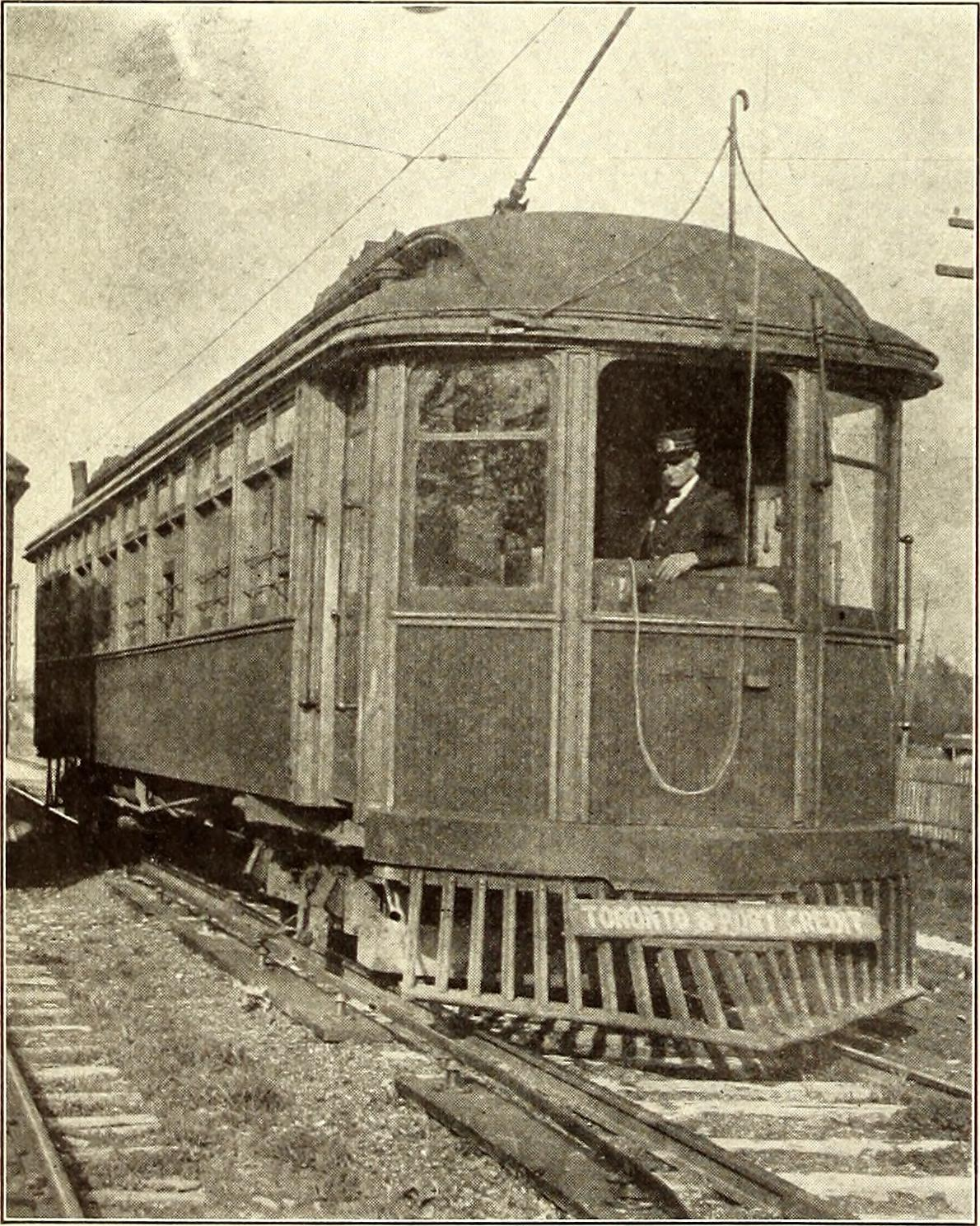 Title: Electric railway journal Year: 1908 (1900s) Authors: Subjects: Electric railroads Publisher: (New York) McGraw Hill Pub. Co Text Appearing Before Image: e marketability, a bond will resultthat will compare favorably with any other returning asimilar rate of interest. THE SIGNAL AND DISPATCHING SYSTEM ON THEMIMICO DIVISION OF THE TORONTO & YORKRADIAL RAILWAY The Toronto & York Radial Railway has been using forseveral months on its Mimico Division, extending 10 mileswest of Toronto, a signal and dispatching system installedby the Simmen Automatic Railway Signal Company, ofLos Angeles, Cal., and Toronto, Ont. This is the firstinstallation of this system on an electric interurban rail-way, but it has already been in regular service for overa year on an 18-mile Southern California division of theSanta Fe Railroad, as described in the Electric RailwayJournal of July 4, 1908. The Mimico Division is probablyone of the busiest single-track lines in existence, as theschedule provides for a 20-minute service during certainhours and requires about 2500 daily signal indications. Theimportance of accurate signaling and dispatching on such a Text Appearing After Image: Toronto Interurban Dispatching—View of Car Equippedwith Shoe for Signal Current Rail Alongside line is self-evident. Through the adoption of the Simmenmethod the dispatcher is not only enabled to issue ordersto the motormen over car telephones as given points arepassed, but is also provided with a recording mechanismwhich shows him at all times the speed and location of every car in service. Further than this, interlocking ar-rangements on his switchboard make it impossible for himto order one car to proceed through a certain block untilthe block has been cleared by the car previously given theright of way. DETAILS OF APPARATUS The train movement record sheet in the dispatchers of